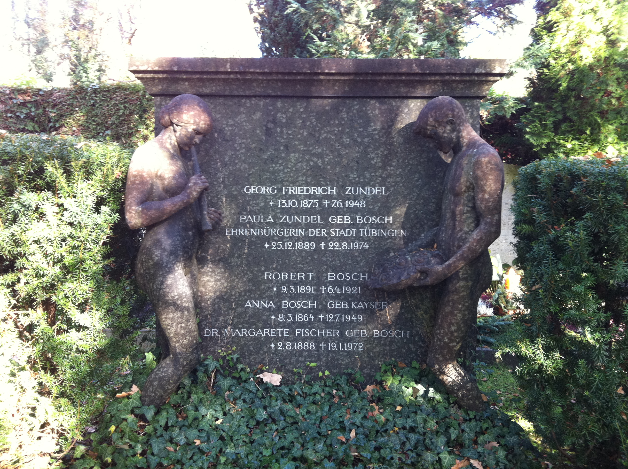 Grave stone of Friedrich Zundel and Paula Zundel née Bosch in the town cemetry of Tübingen (Germany)